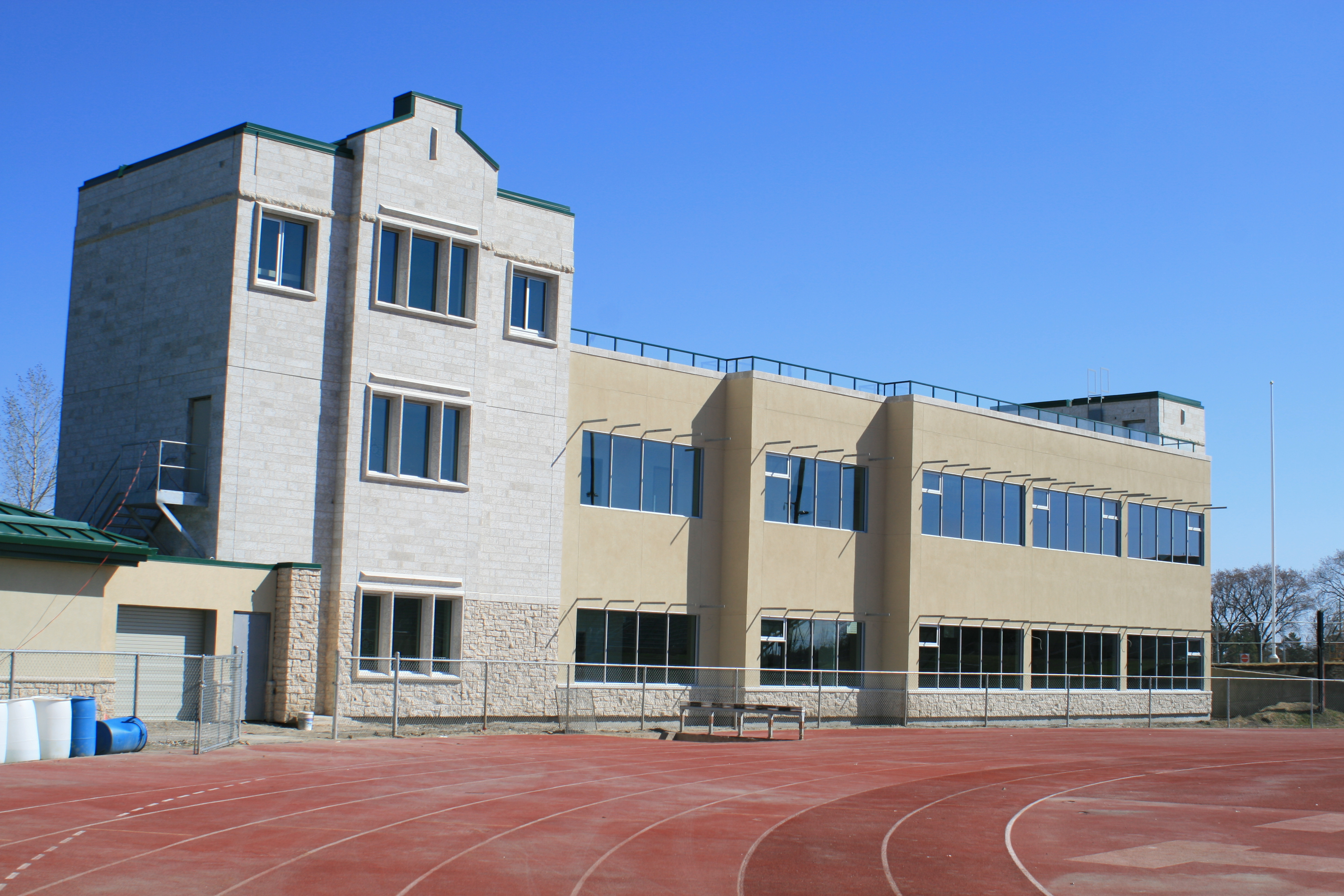 The expanded Graham Huskie Clubhouse at Griffiths Stadium in Saskatoon, Saskatchewan